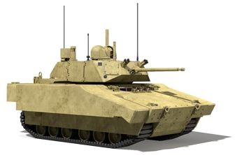 Artists impression of an XM1206 ICV